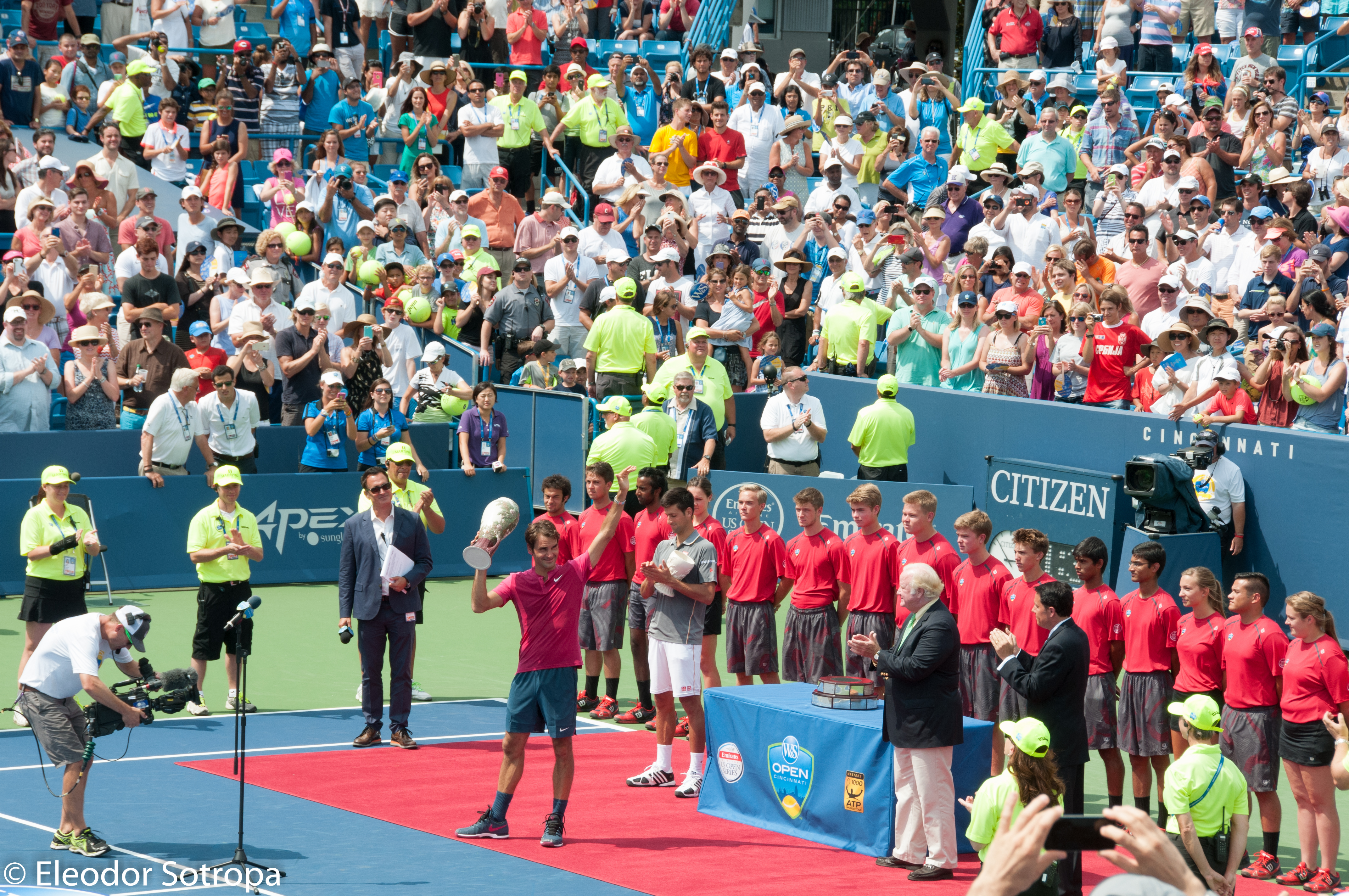 Cincinnati-Tennis-2015-ATP-WTA-137